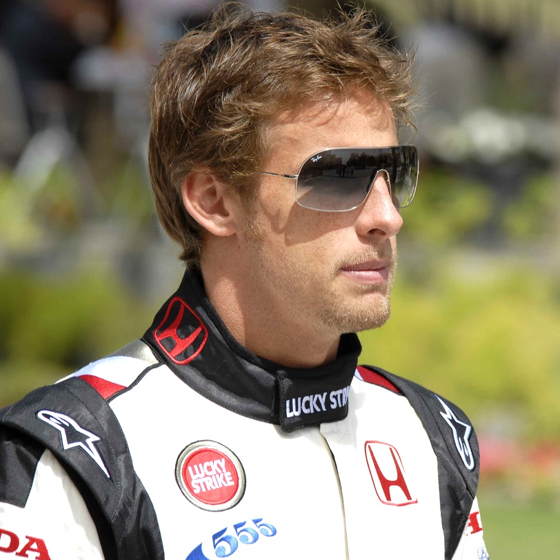 Jenson Button at the 2006 Bahrain Grand Prix. This image may be on Commons as :commons:File:Jenson_Button_2006.jpg